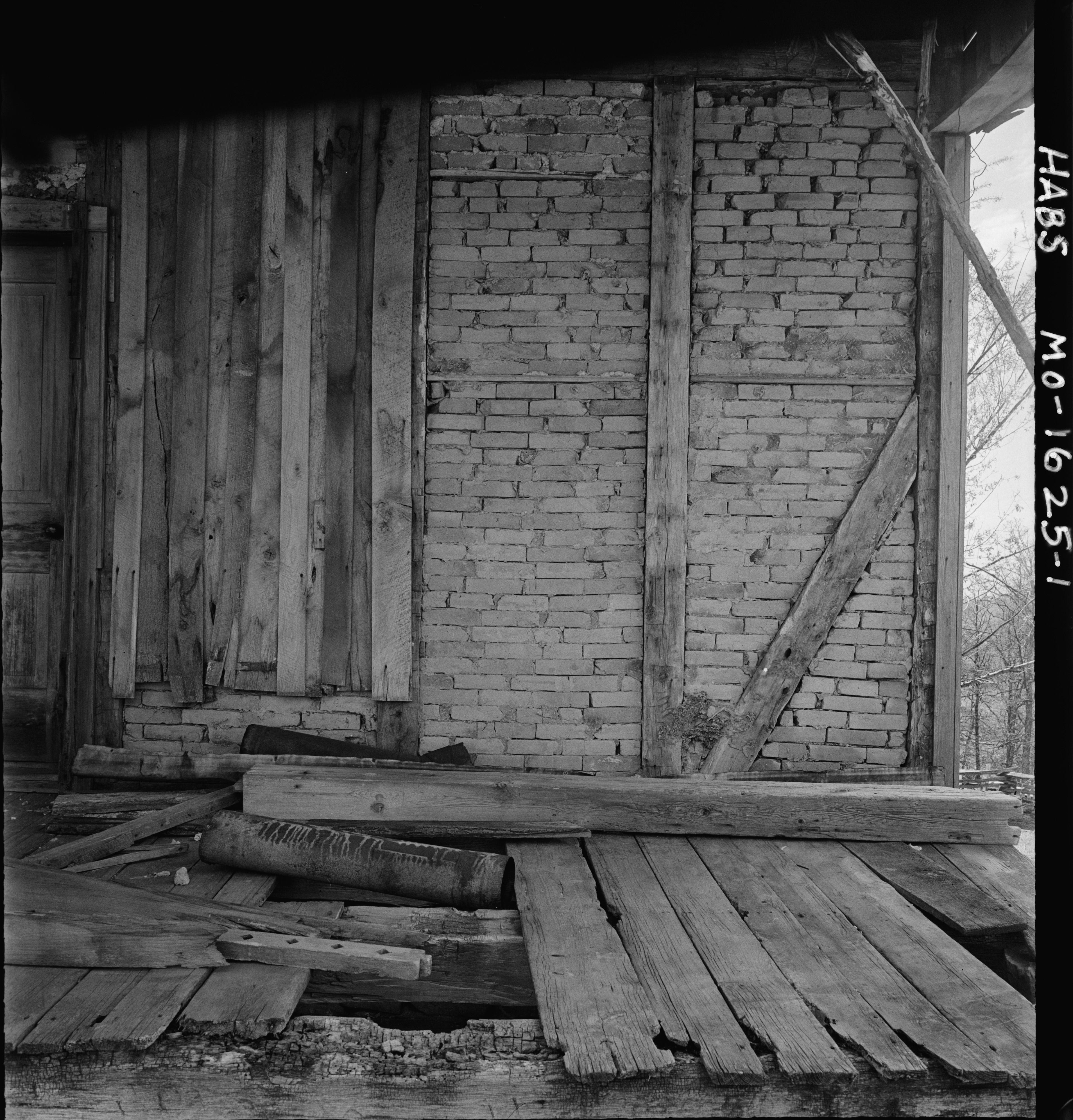 This photograph is of a half-timbered wall with brick nogging between the frames. This is pierrotage. It was near Ste. Geneviève, Missouri The photograph was probably taken between 1930 and 1955.